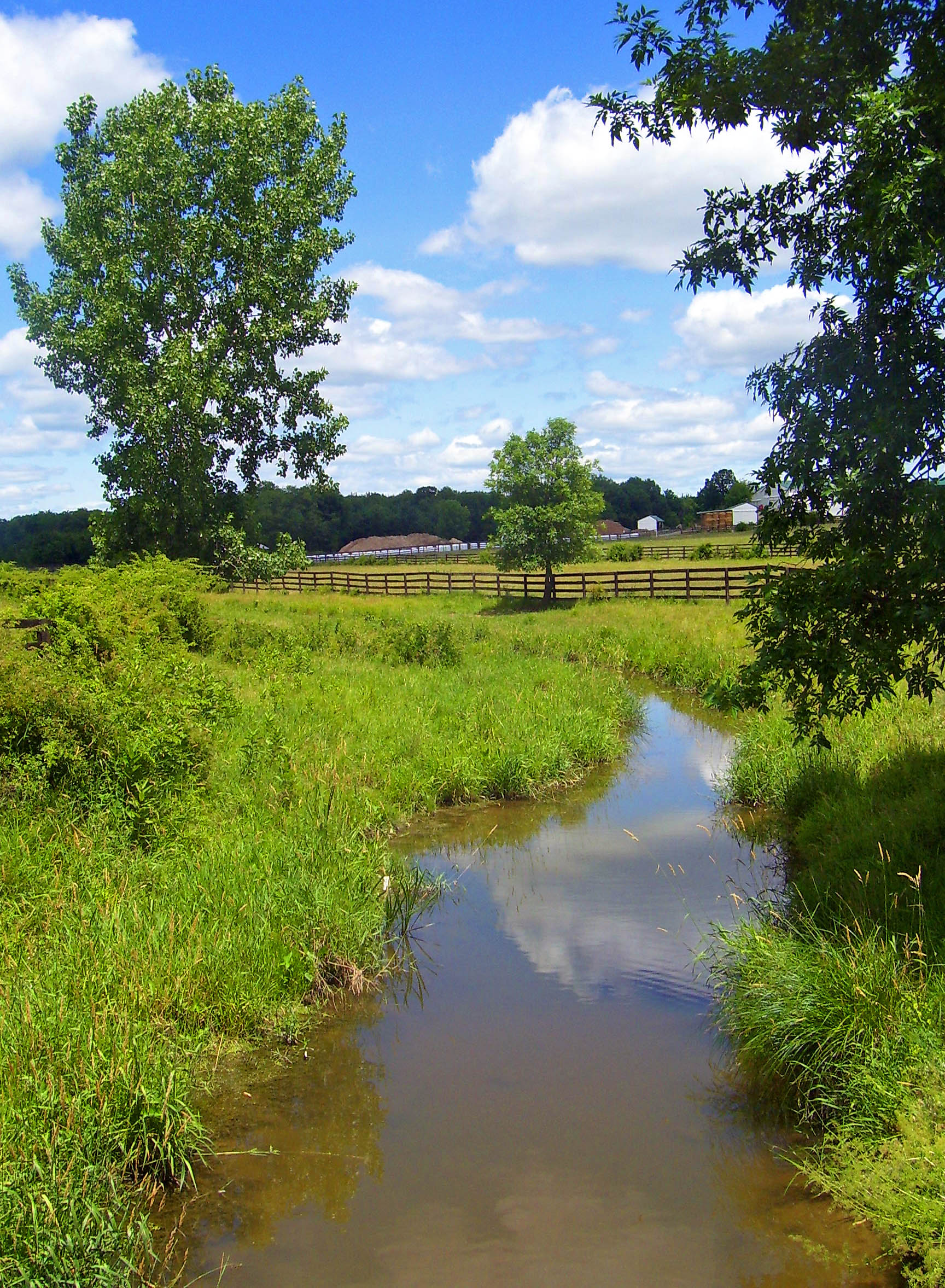 Muddy Kill, a short tributary of the Wallkill River, seen from NY 17K